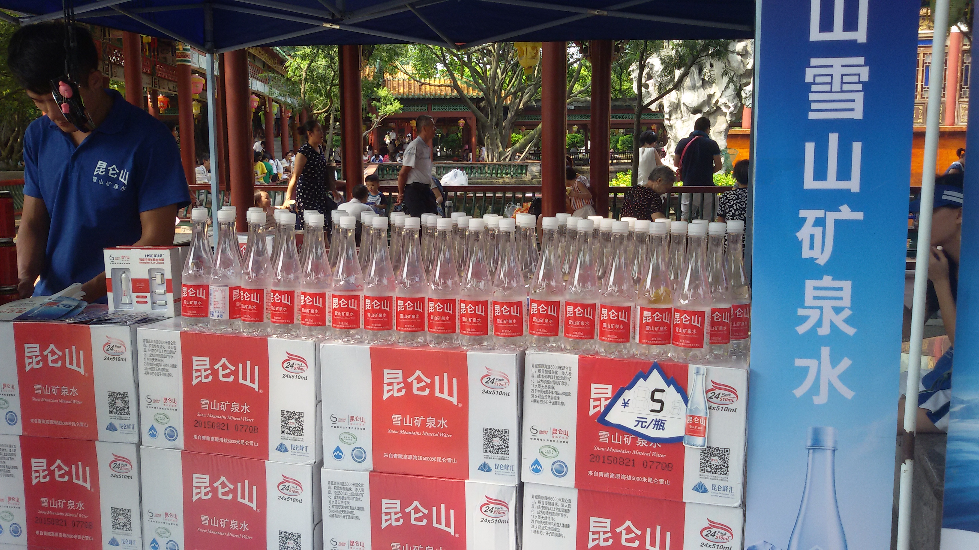 Kunlun Mountain Natural Mineral Water